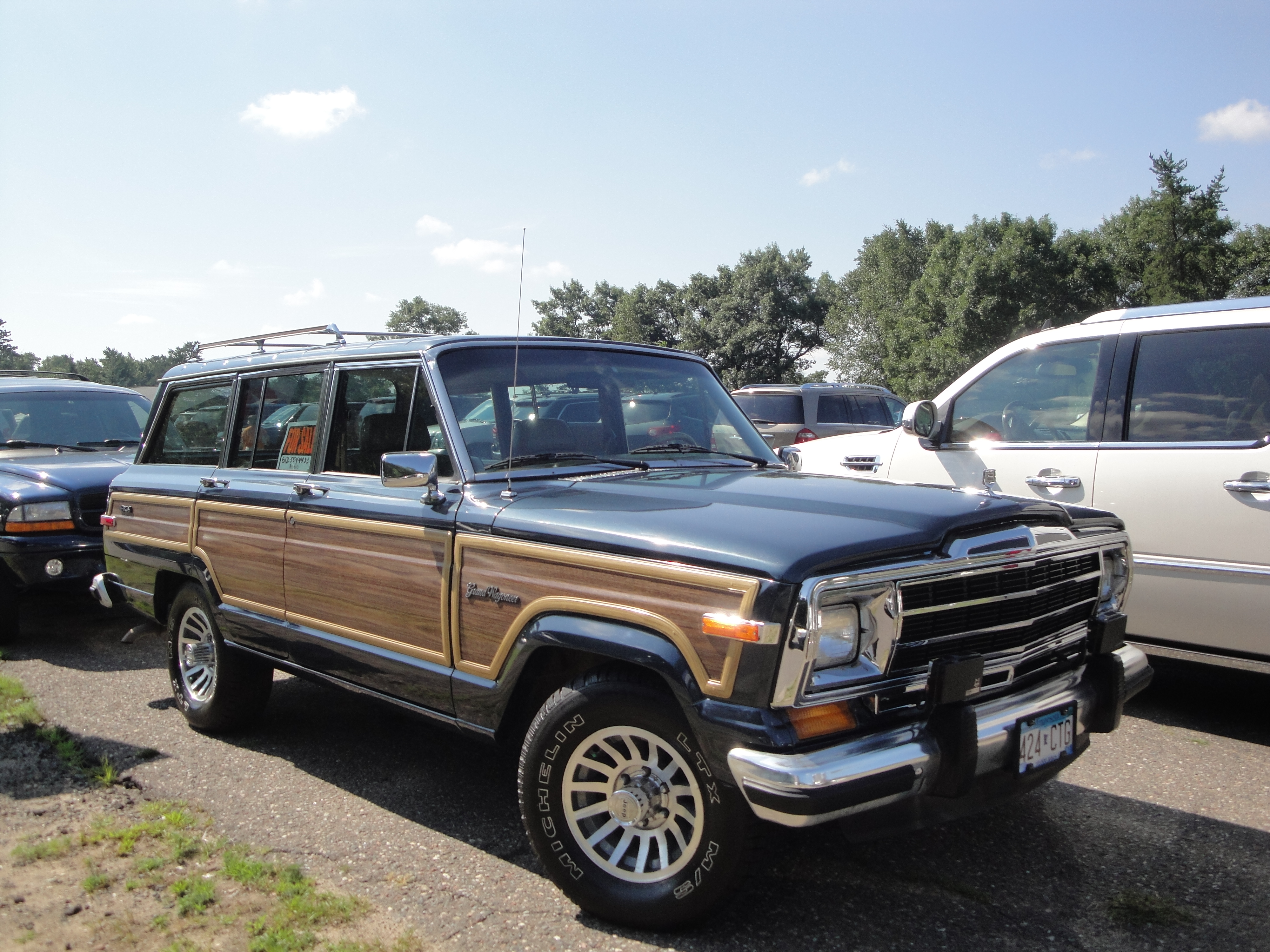 25th Annual Antique & Classic Wood Boat Rendezvous